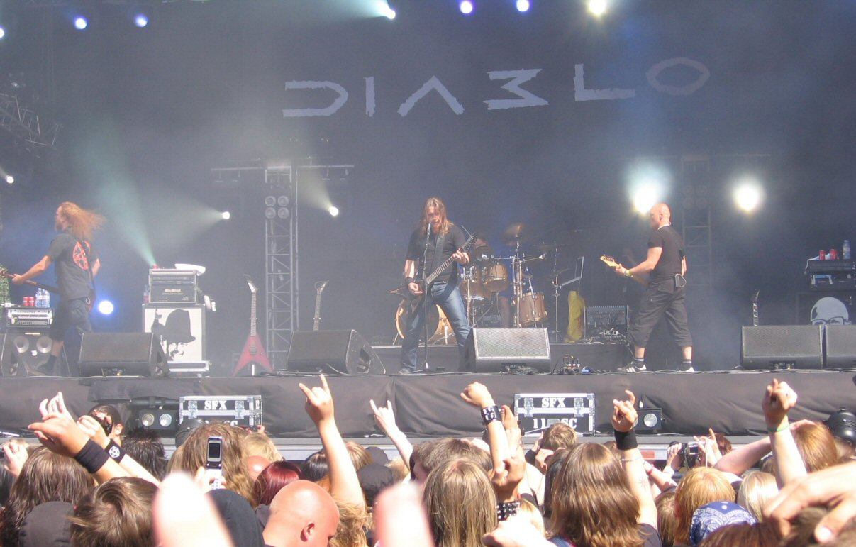 Finnish heavy metal group Diablo performing at Tuska Open Air Metal Festival 2006.